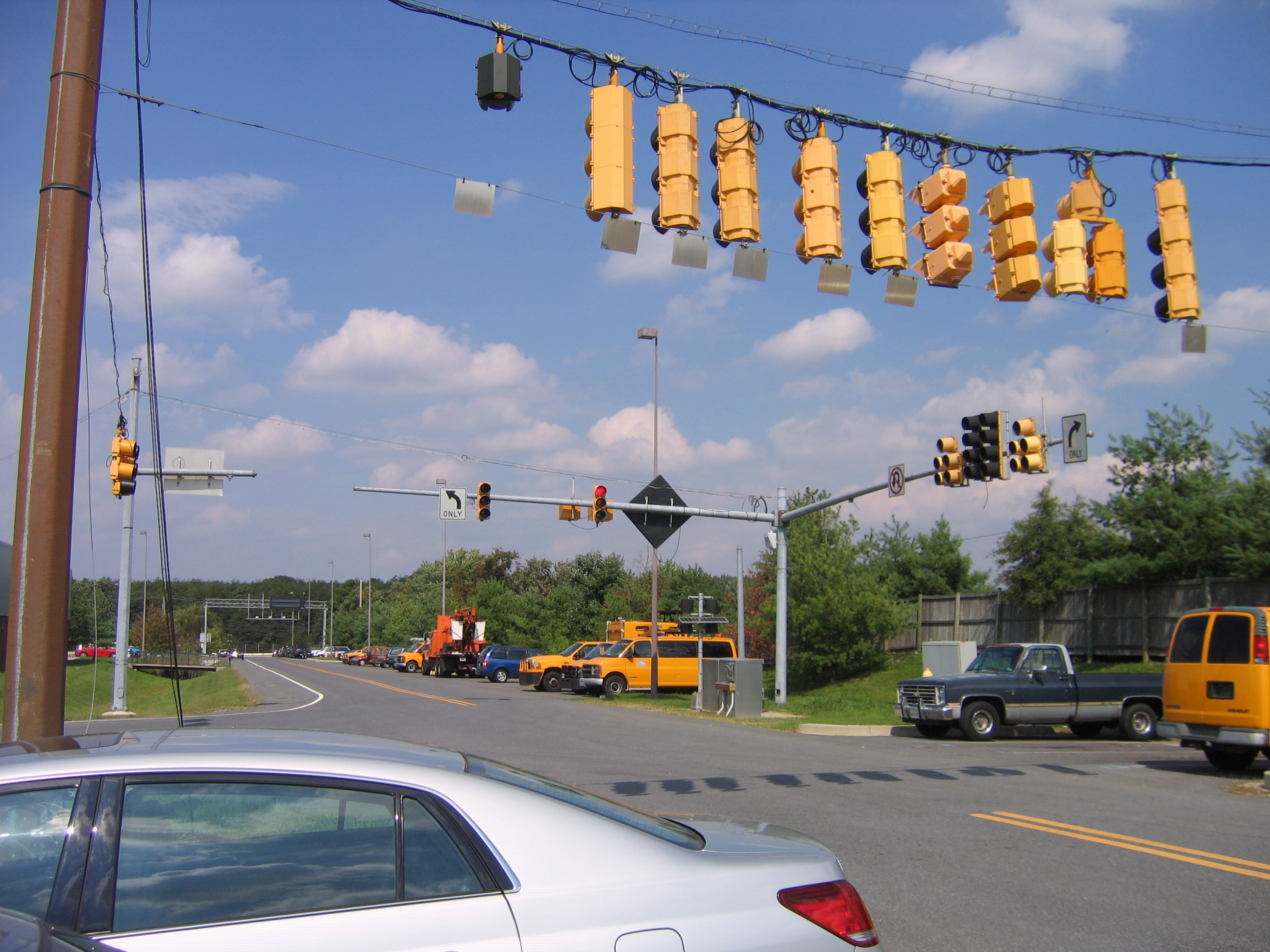 Signal testing along Traffic Drive at the Maryland State Highway Administration's Office of Traffic and Safety, Hanover, MD, USA